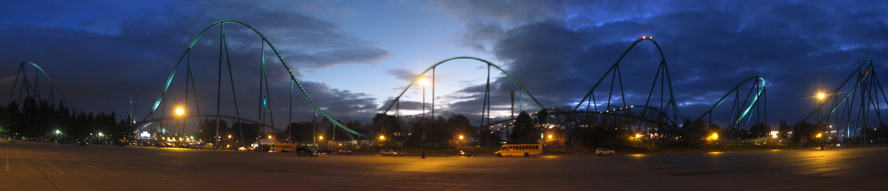 Leviathan at night as seen from the parking lot.